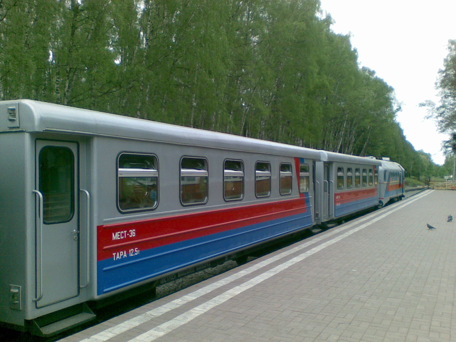 Train at the Beryozki station of the Novomoskovsk children's railway